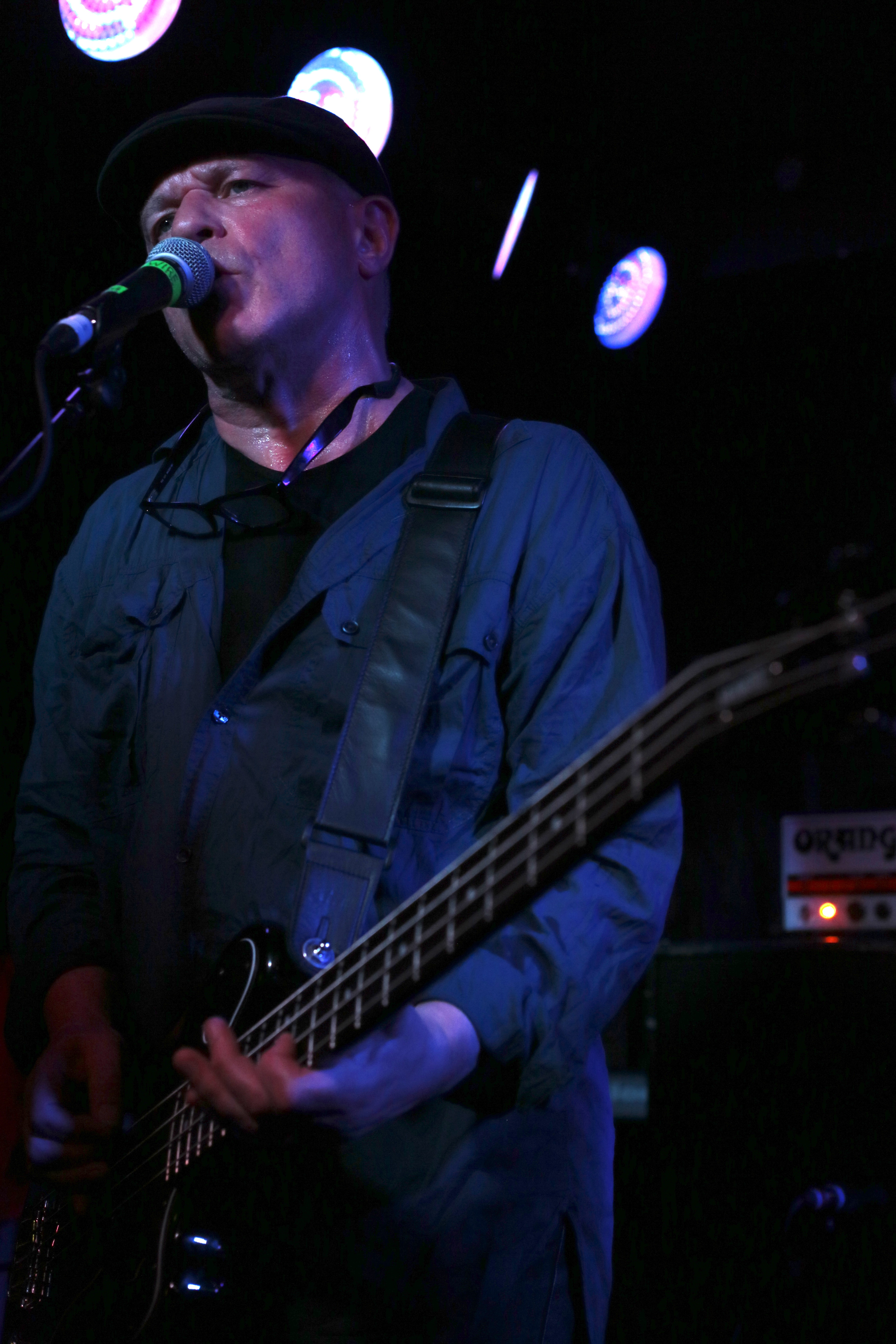 Graham Lewis of Wire, sep 2013. Photo by Fergus Kelly.